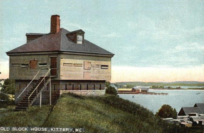 Old Block House, Kittery Point, Maine. Built as part of Fort McClary, the block house dates from 1844.